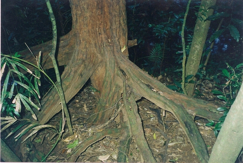 Gossia bidwillii at Booyong Reserve, near Lismore NSW